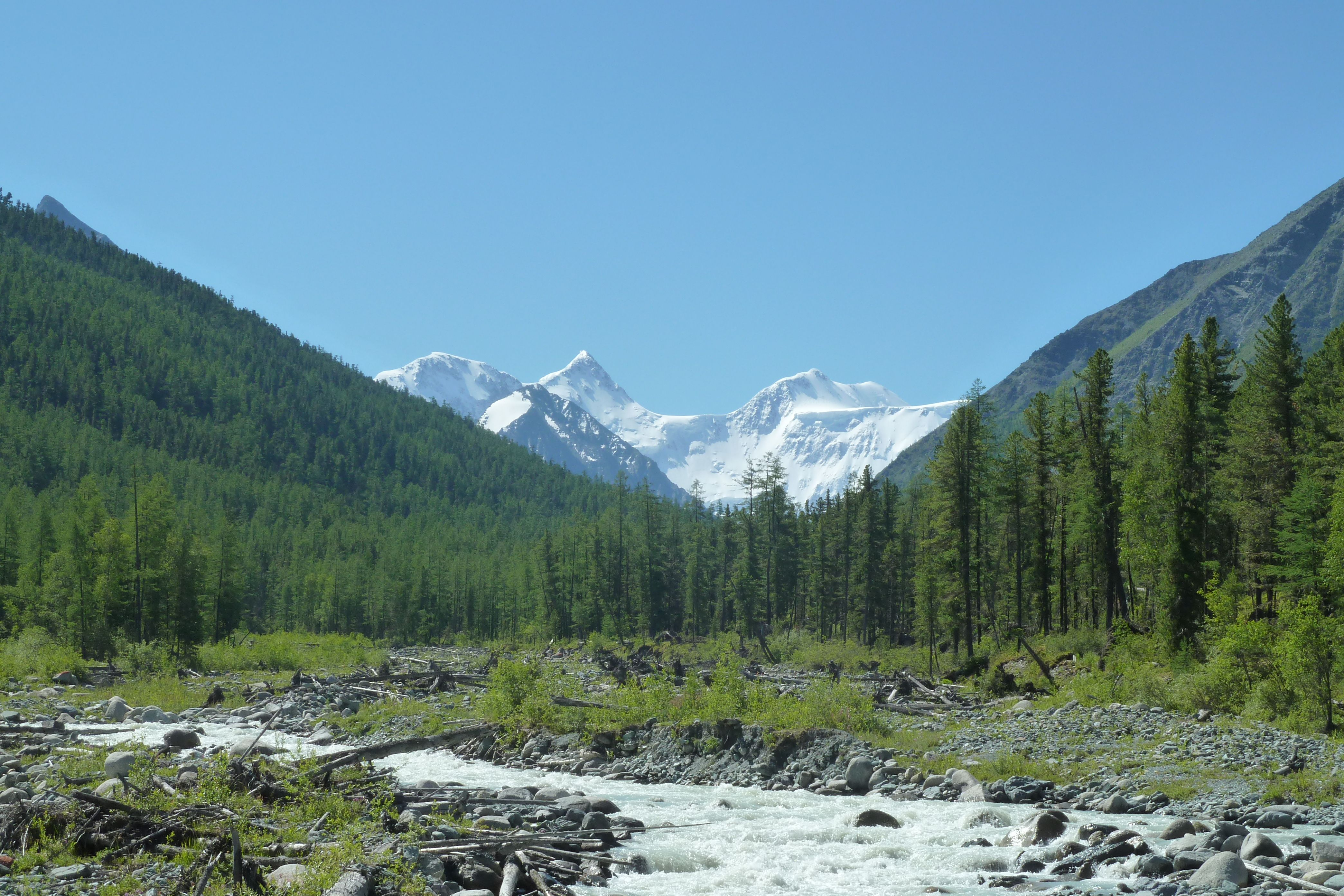 The Akkem Valley and mount Belukha